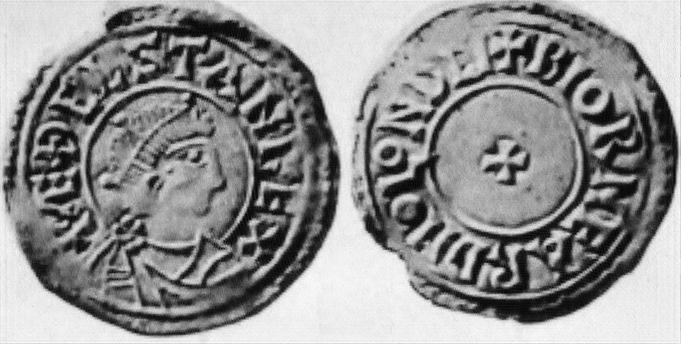 Coin of Æthelstan, king of England 924-939. London mint. Small cross pattée. Moneyer Biorneard.